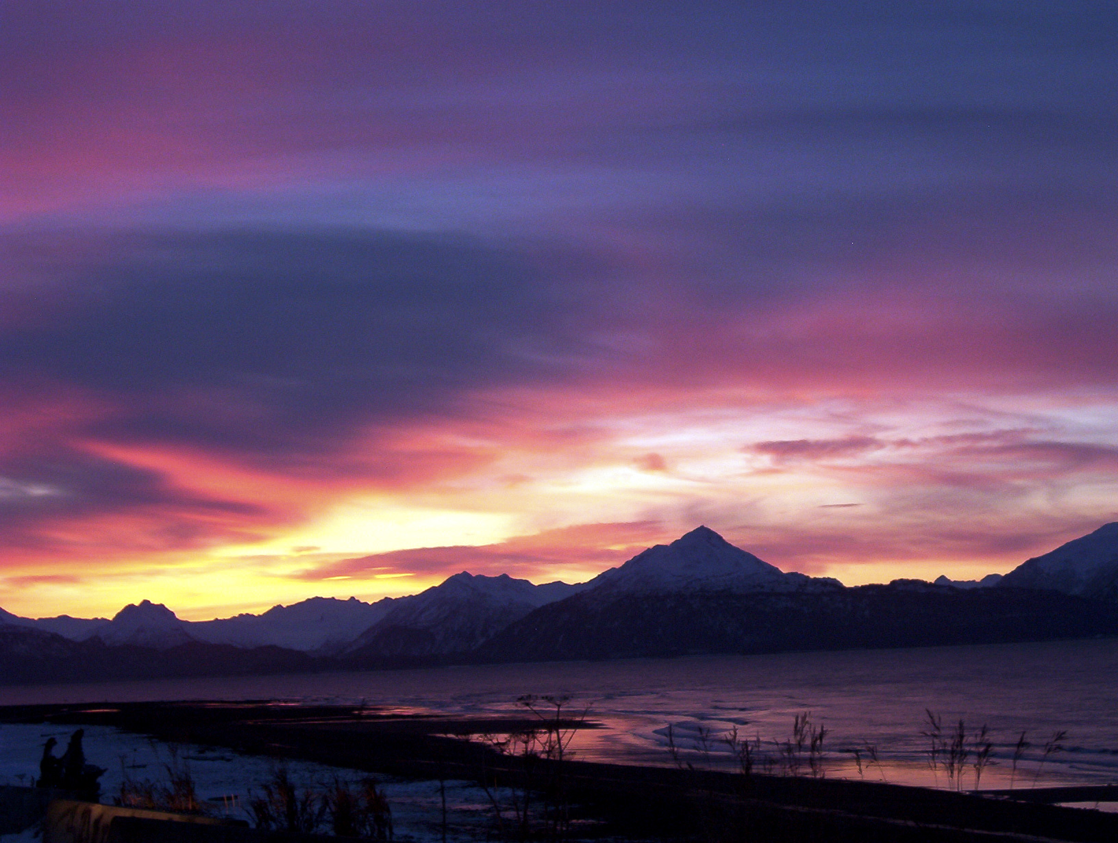 Sunrise on a winter's day on Kachemak Bay, Alaska